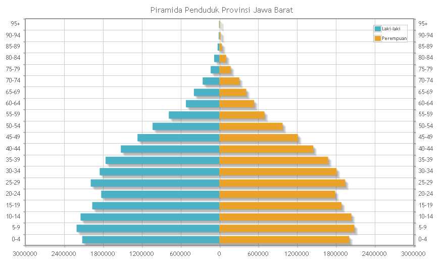 Population pyramid of West Java province, Indonesia. Figure based on the 2010 population census. Male Female